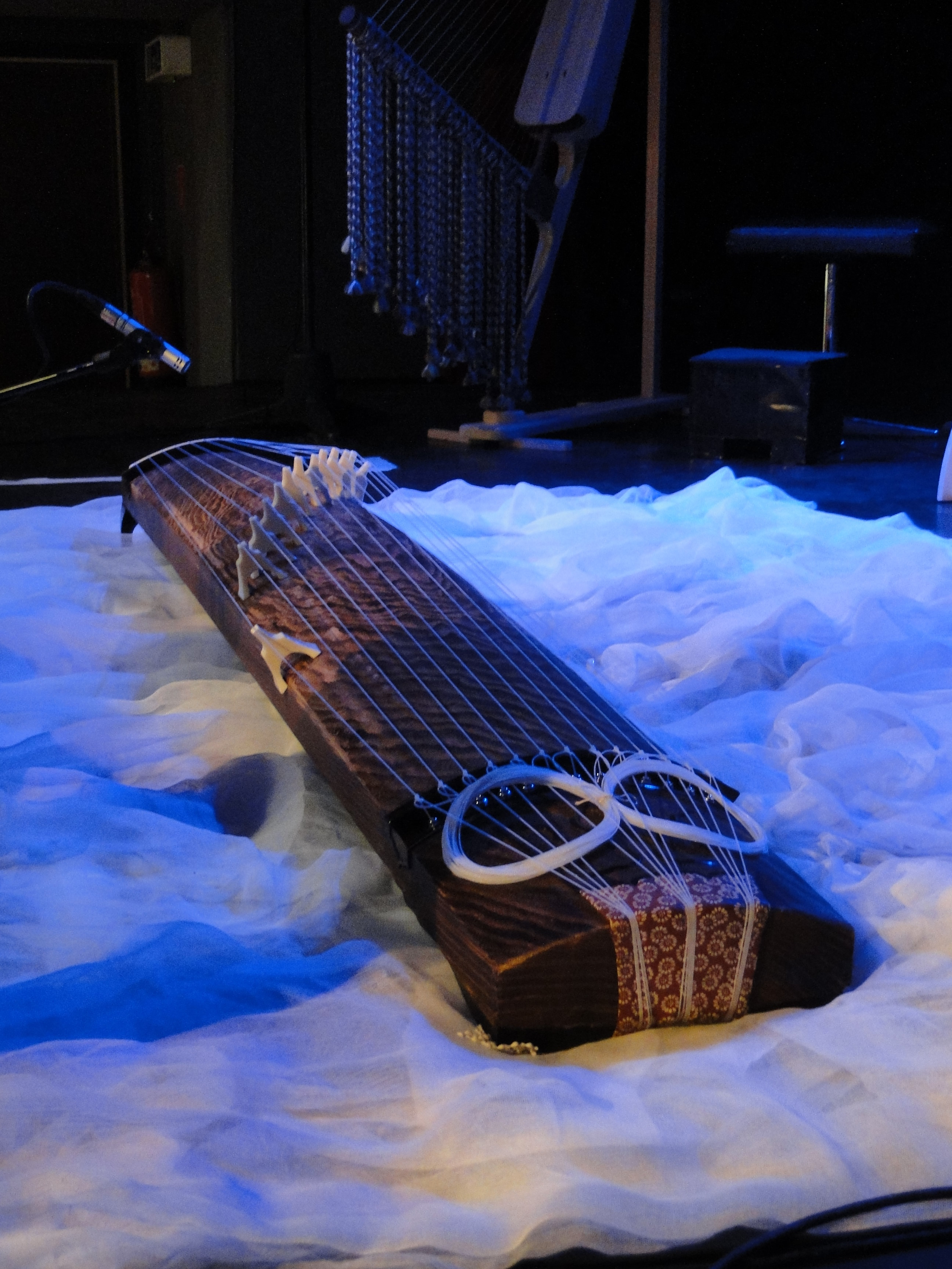 Japanese 13-stringed koto (left in front)